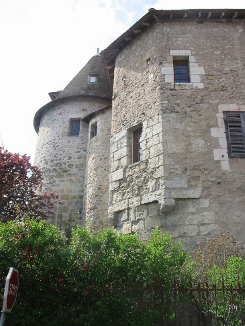 Prieuré Bénédictin XIIIème s.